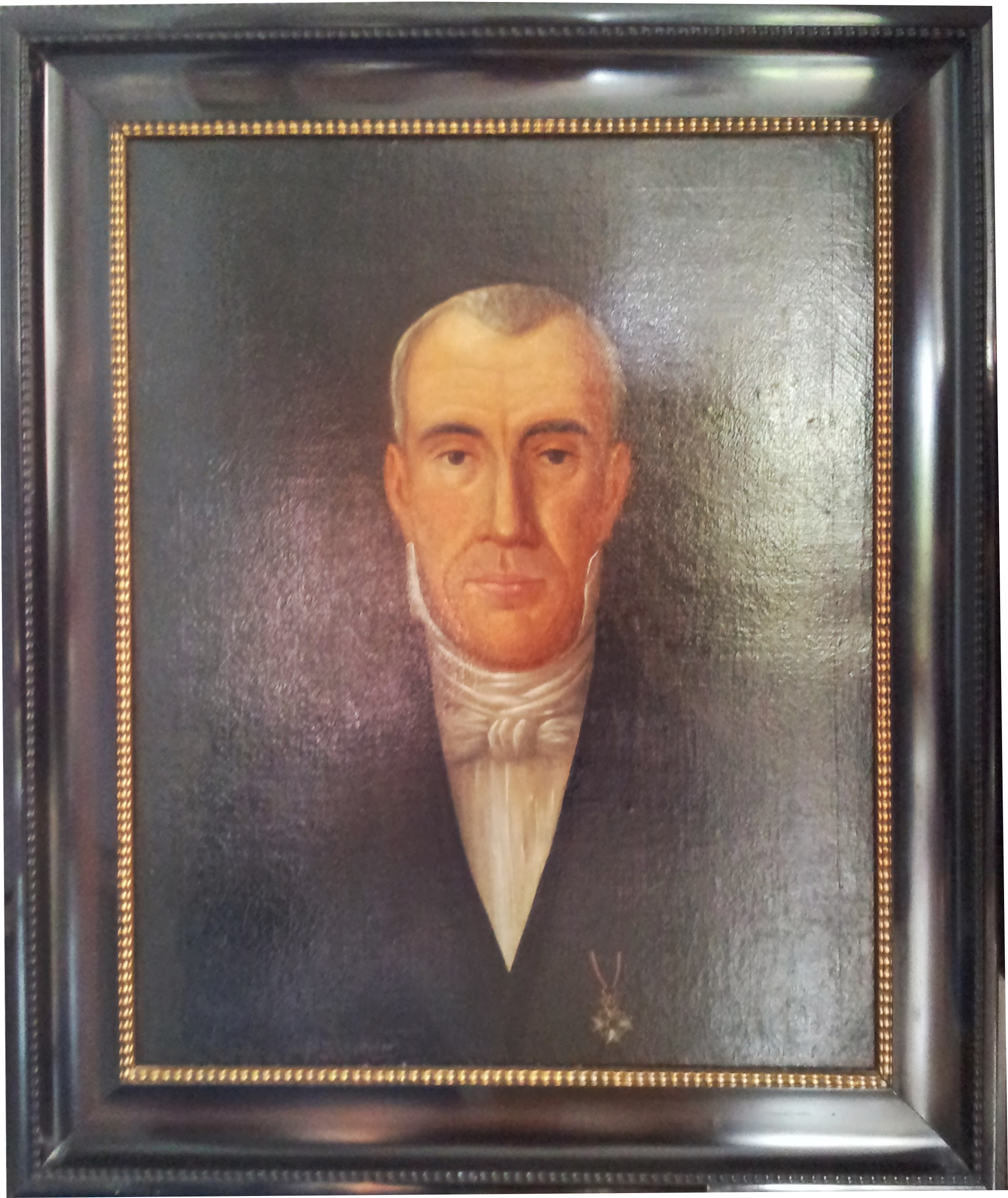 Portrait of Pieter Herbert van Lawick van Pabst, Knight in the Order of the Netherlands Lion 1820